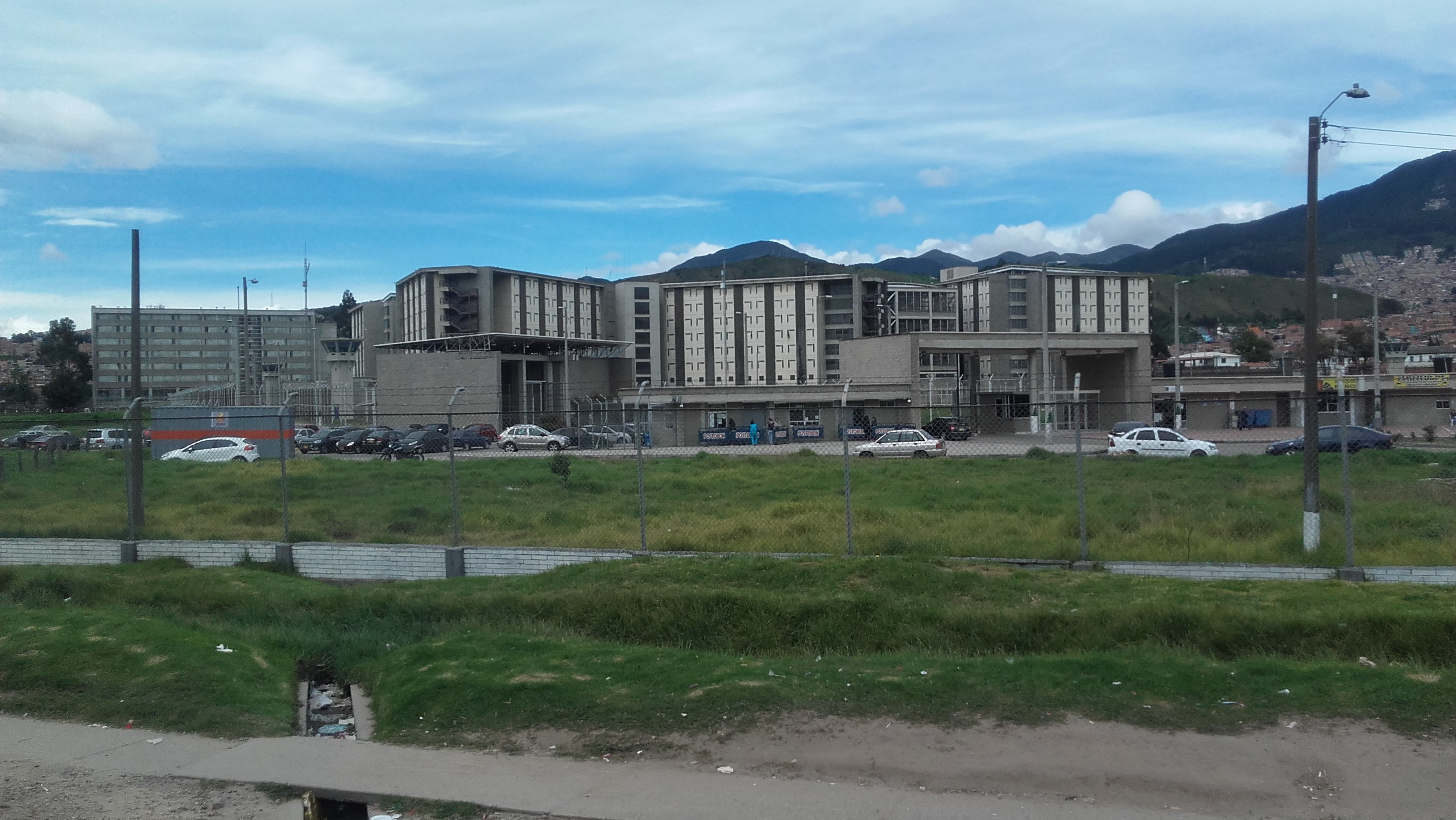 ffffffffffgggggg